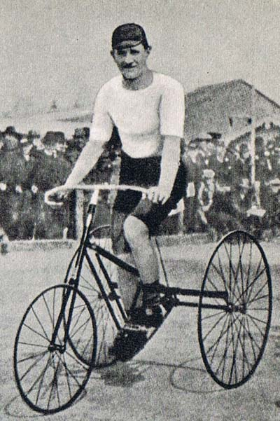 Pim Kiderlen